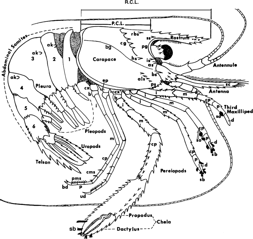 Stenopodidea anatomy